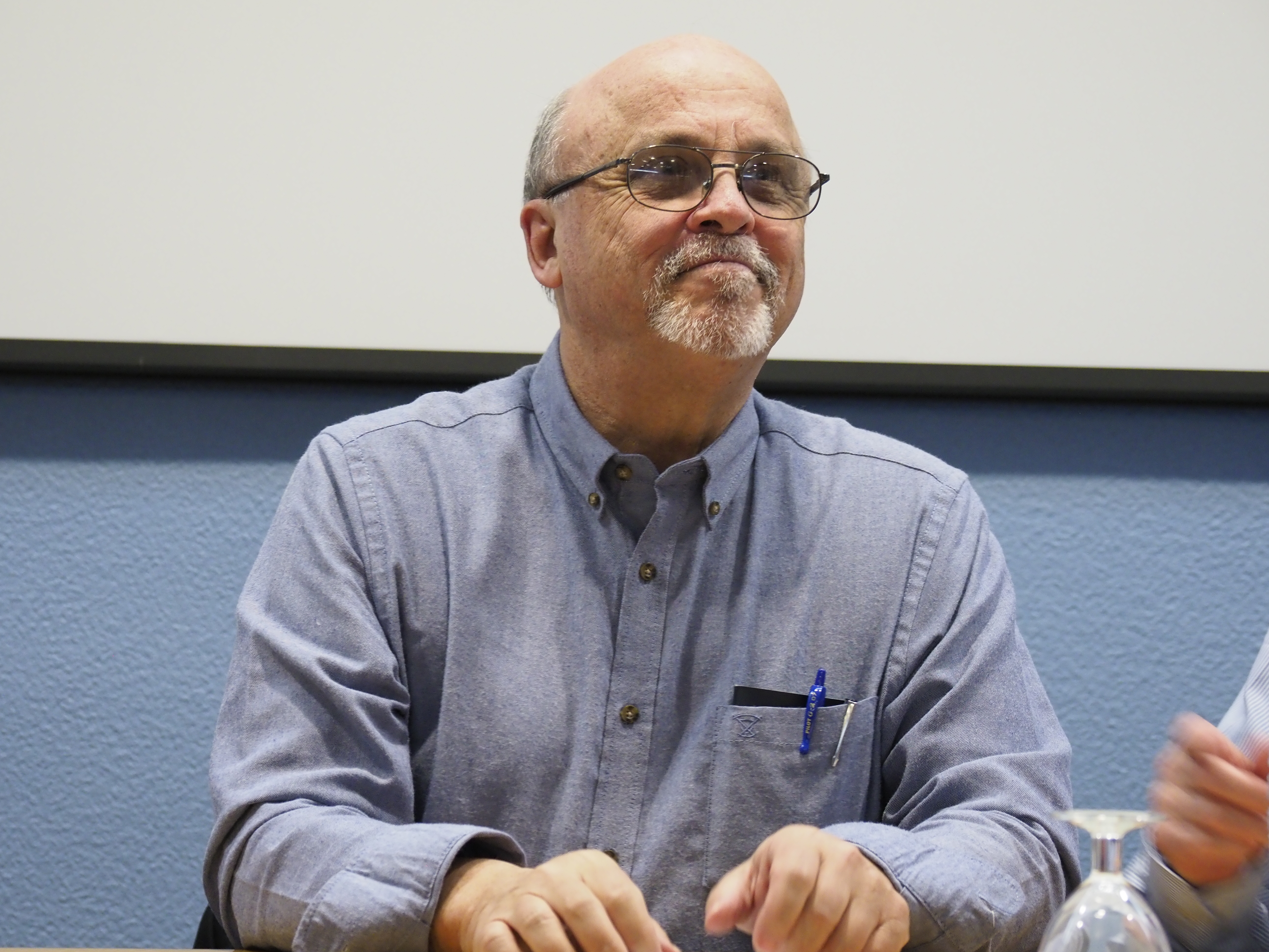 Robert Schieler, Superior General of the Institute of the Brothers of the Christian Schools